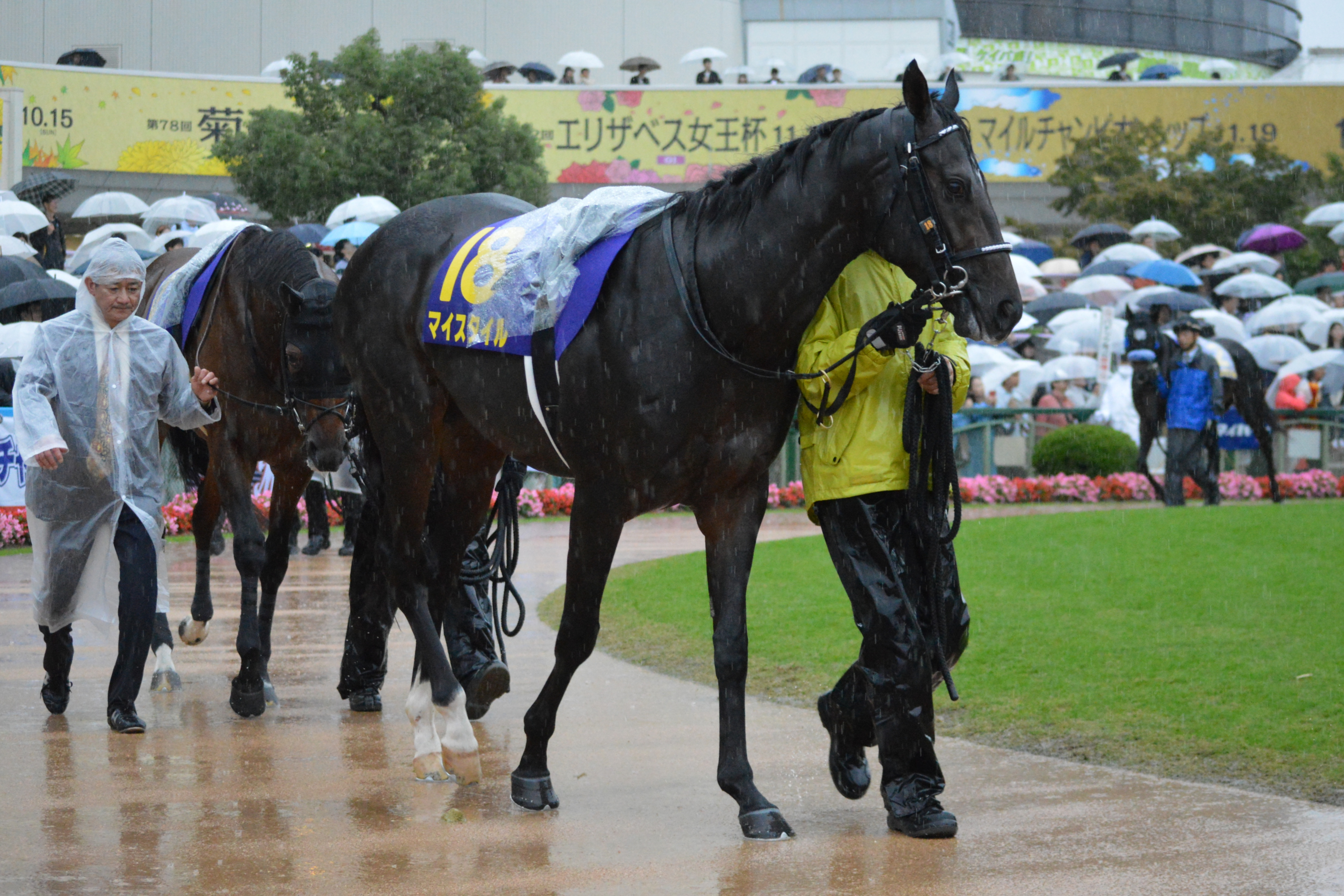 Japanese race horse My Style at Kyoto racecourse. Kyoto (JPN) 22 Oct 2017Kikuka Sho (Japanese St.Leger) (Grade 1) (3yo Colts & Fillies) (Turf) 1m7f Soft RankHorse NameOddsAgeWgtTrainerJockey1st Kiseki (JPN)7/2FC39-0Katsuhiko SumiiMirco Demuro18thMy Style (JPN)67/1C39-0Mitsugu KonHirofumi ShiiOthers are omitted. (18 horses entered in a race.)